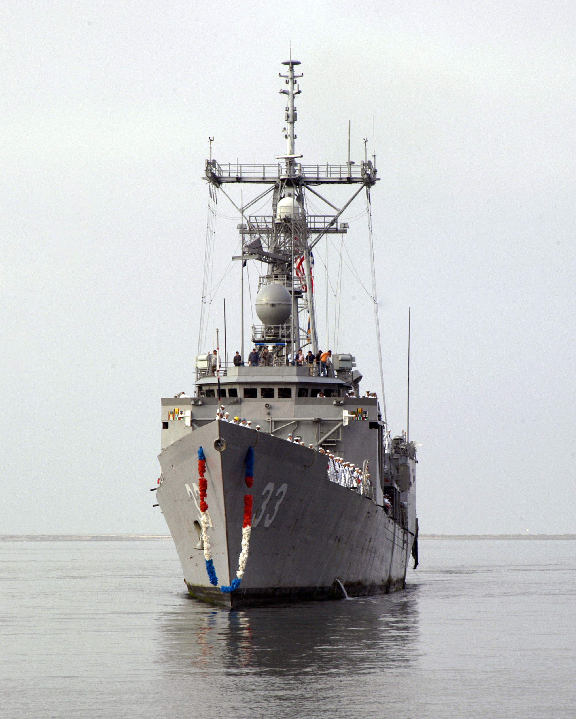 San Diego, Calif. (Oct. 11, 2005) – The guided missile frigate USS Jarrett (FFG 33) returns to Naval Station San Diego after spending six months performing counter narcotic terrorism operations in the Southern Pacific Ocean. U.S. Navy photo by Photographer's Mate LaQuisha S. Davis (RELEASED)